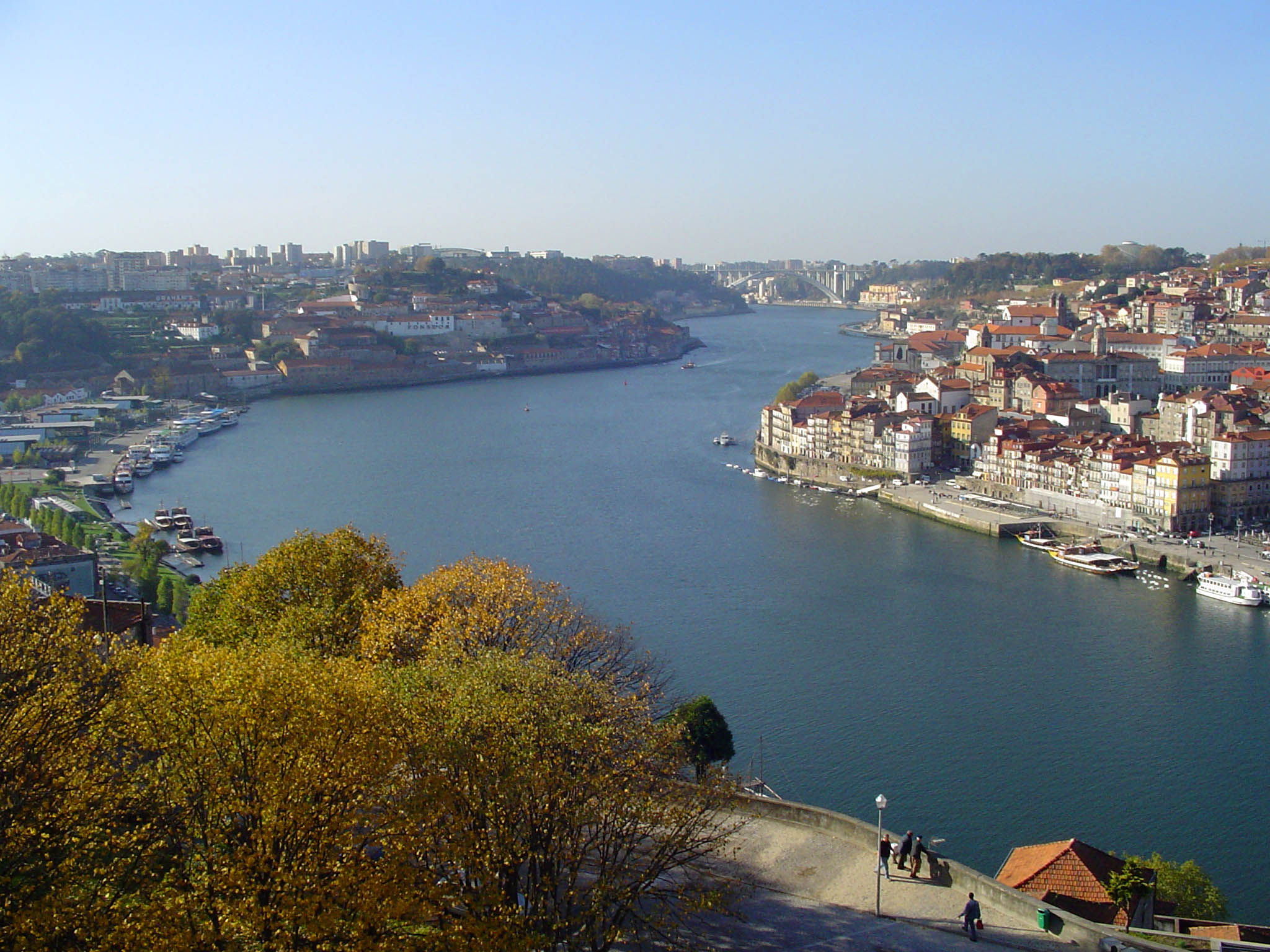 View over Rio (River) Douro - Portugal. Porto is at its right and Vila Nova de Gaia is at its left.